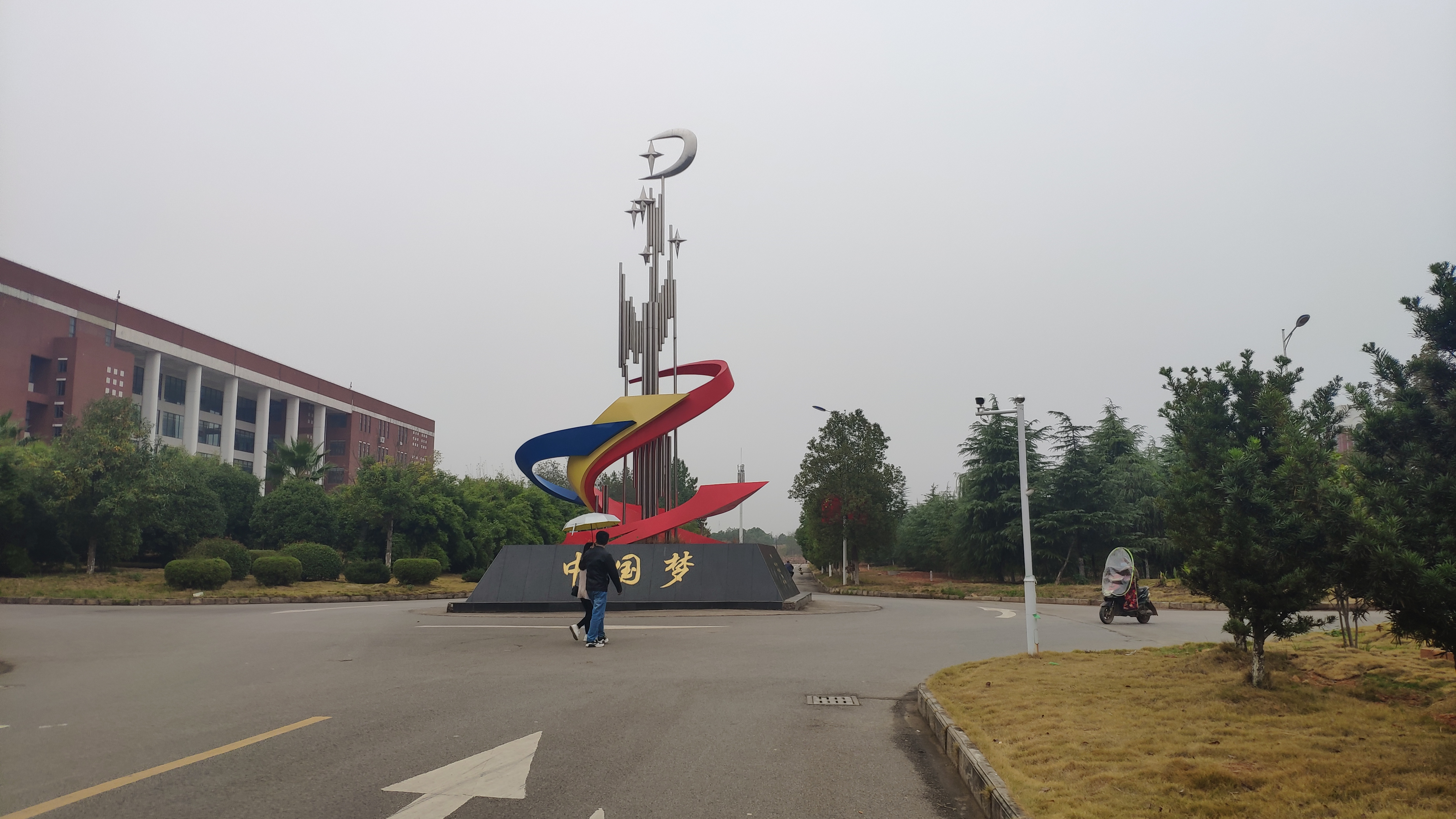 Nanchang Vocational College